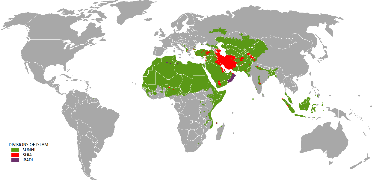 Main divisions in Islam